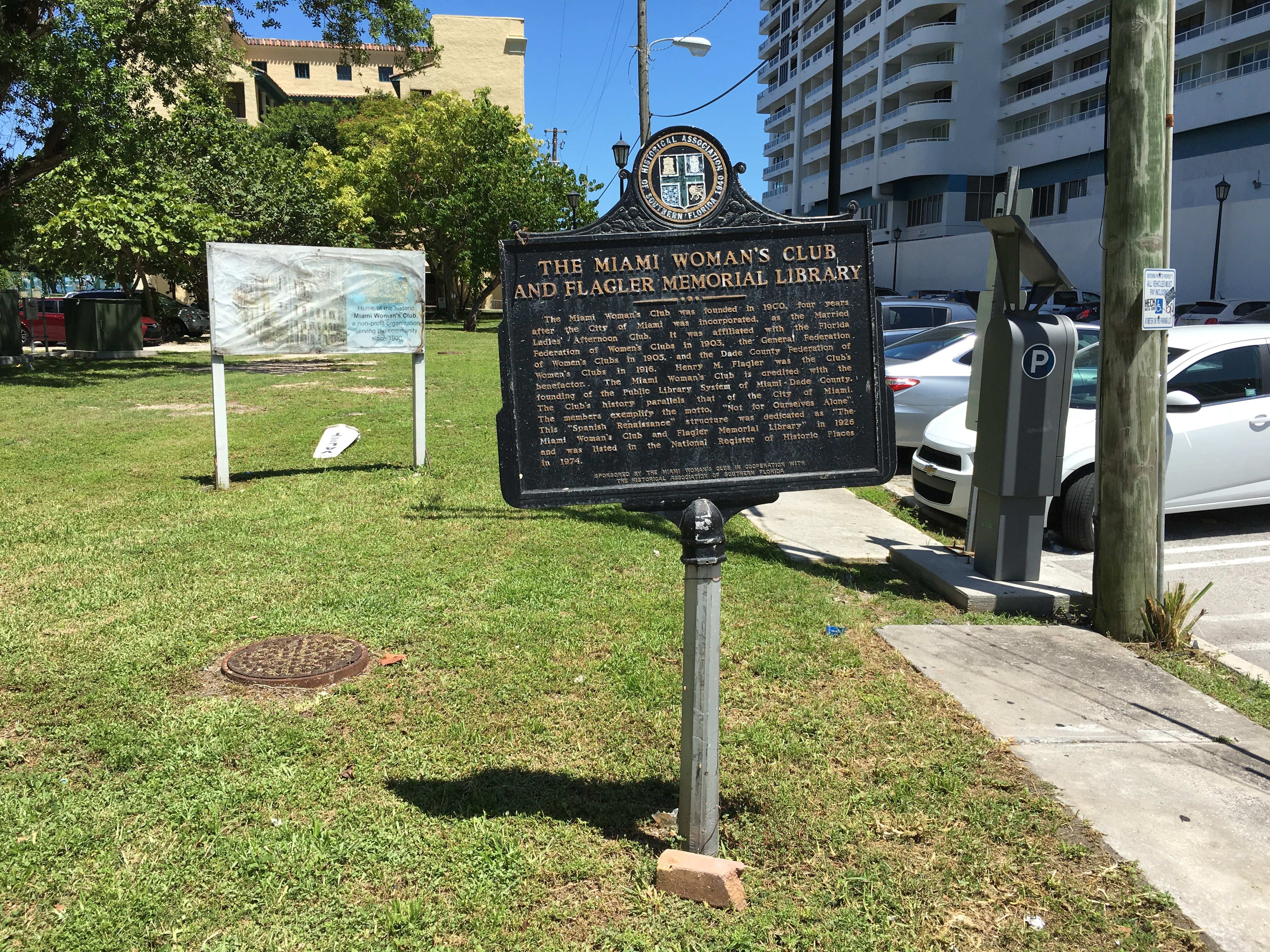 History of the Miami Women's Club and beginning of the Miami-Dade Public Library system.